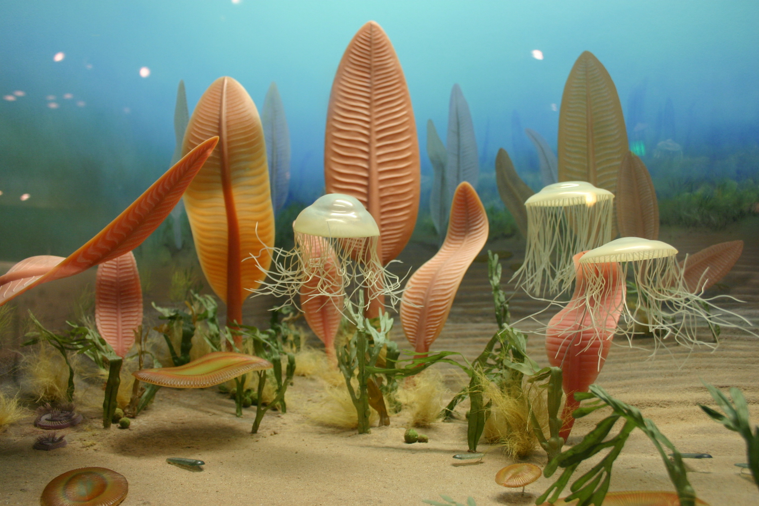 Diorama of Ediacaran sealife displayed at the Smithsonian Institution. Visit my blog at